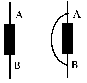 short-circuit